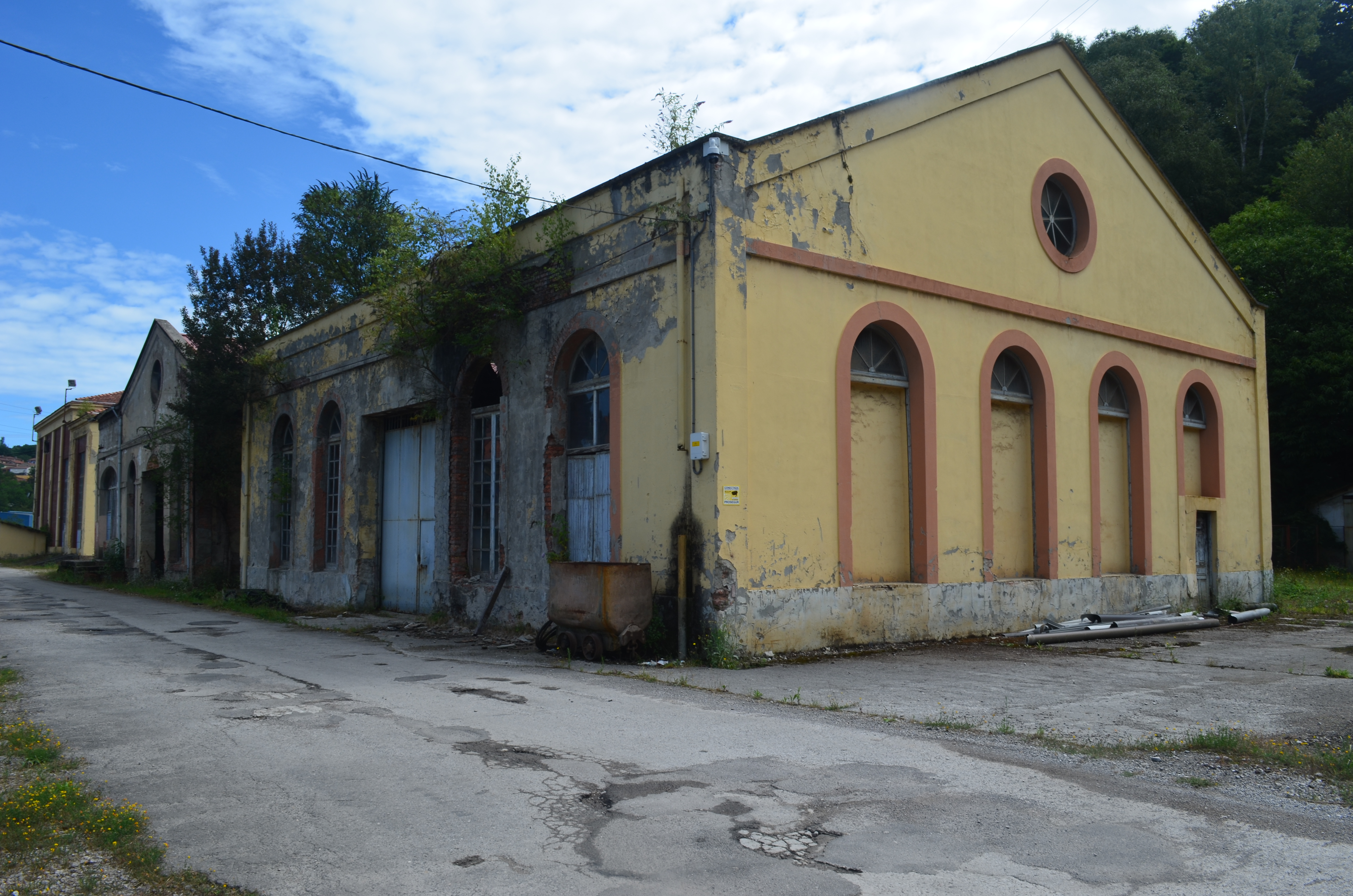 Locker room on the old Lláscares coal mine in Asturias, Spain